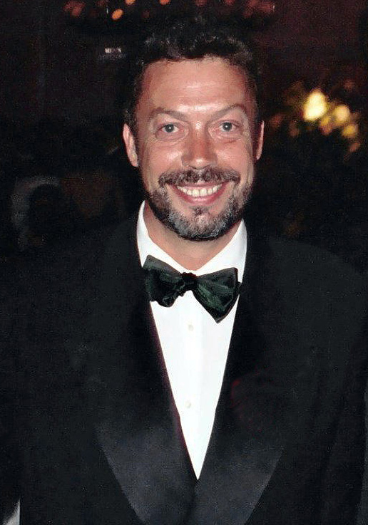 Tim Curry at the 47th Emmy Awards Governor's Ball - photo cropped to remove other people from shot